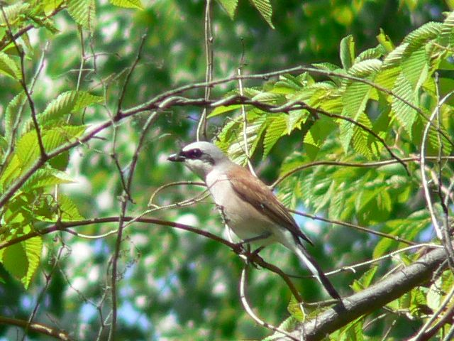 Lanius collurio Red-backed Shrike / Neuntöter / Dzierzba gąsiorek (Lanius collurio)